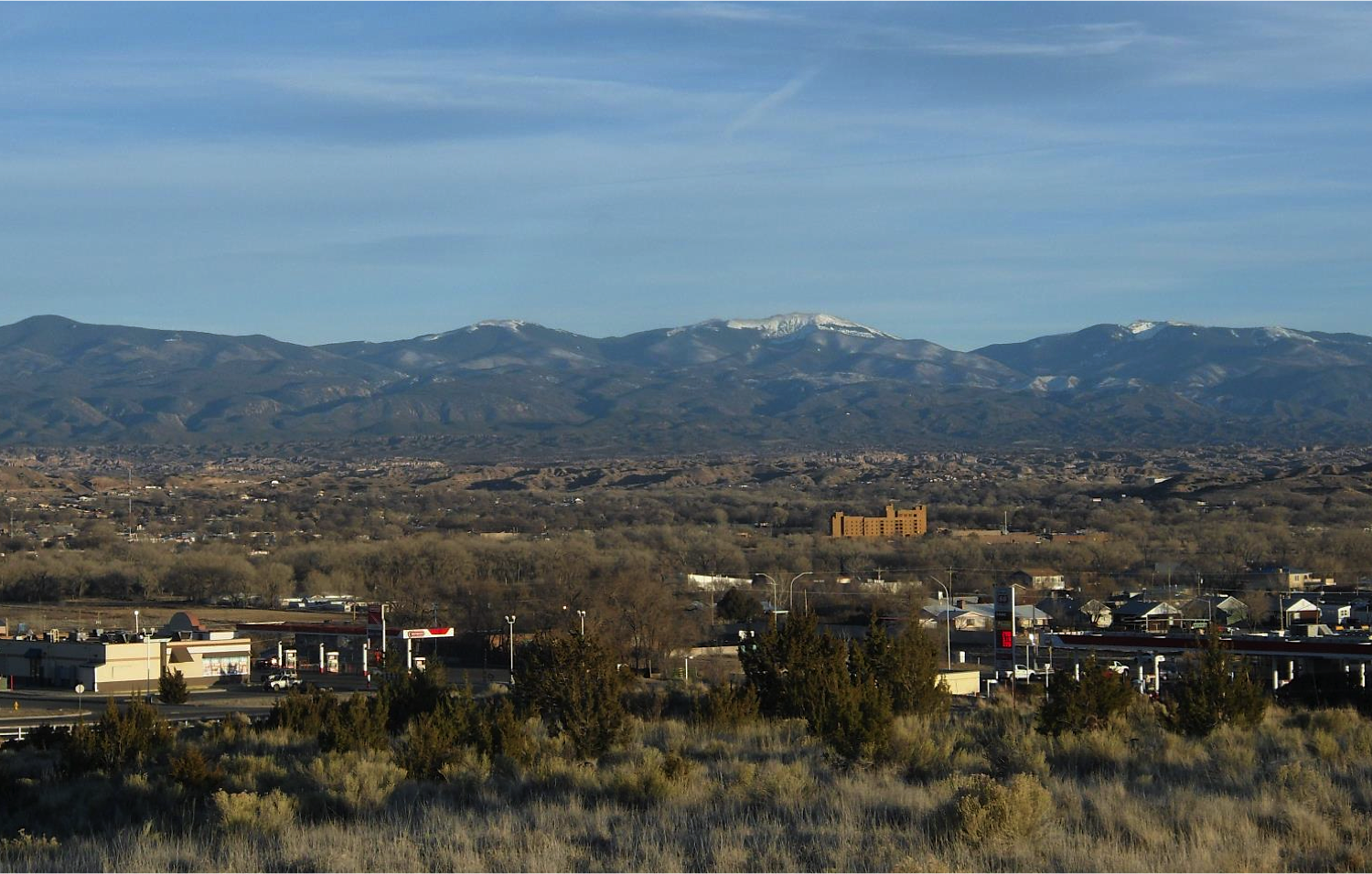 A view of the city of Espanola from the city's industrial park. Located on the west end of the city, taken in May 2012.